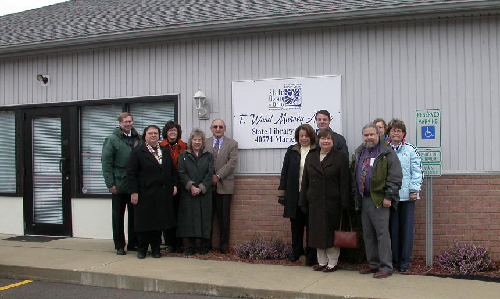 Opening of the F. W. Murrey Annex